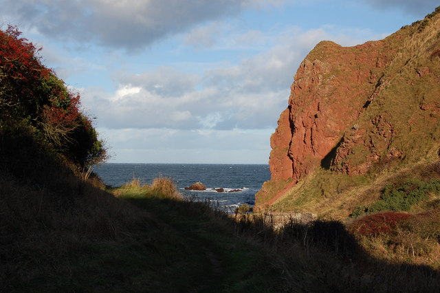 Abbey Burn and Linkim Shore Looking towards Linkim Shore from the Berwickshire Coastal Path as it passes through valley of Abbey Burn. This is where the burn enters the sea.